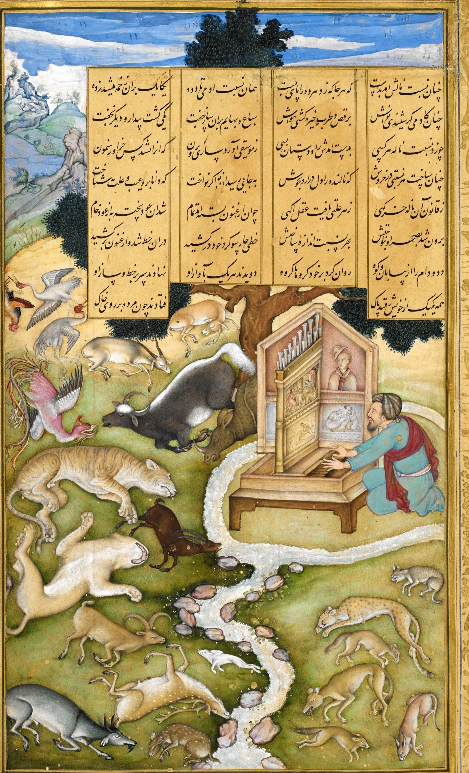 Madhu Khanazad (attr.) Plato charming the wild animals with music, Khamsa of Nizami, Mughal, 1595 -6, f.208, British Library.